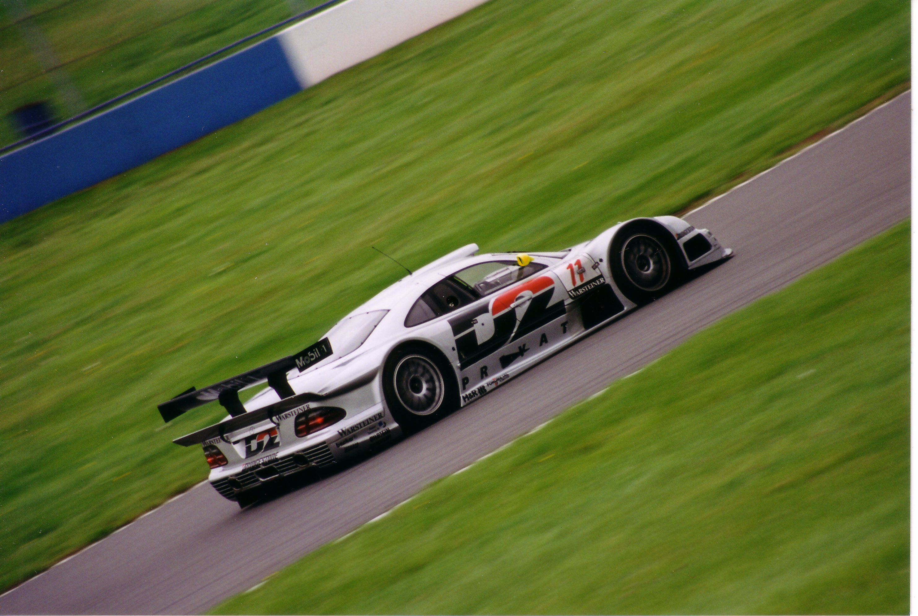 Scanned from 35mm Canon EOS 100